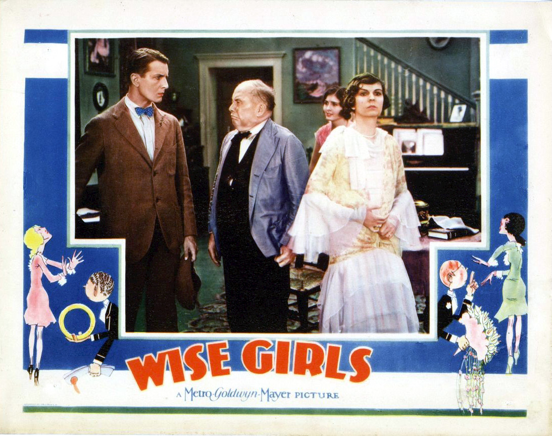 Lobby card from the 1929 film Wise Girls. Pictured are Elliott Nugent, J. C. Nugent (father of Elliot), Marion Shilling (in background), and Norma Lee.